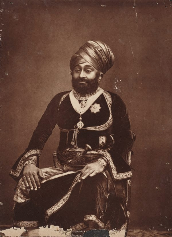 This is a three-quarter-length, seated portrait of H.H. Man Singh, Raja of Dhrangadhra (1837-1900) from the Album of cartes de visite, portraits of Indian rulers and notables by Bourne and Shepherd. This H.H. Man Singh (1869-1900) is known for his able administration, during which he established schools and improved communication systems. He was created a Knight Commander of the Star of India in 1877. According to Getty Images, this is from 1889.